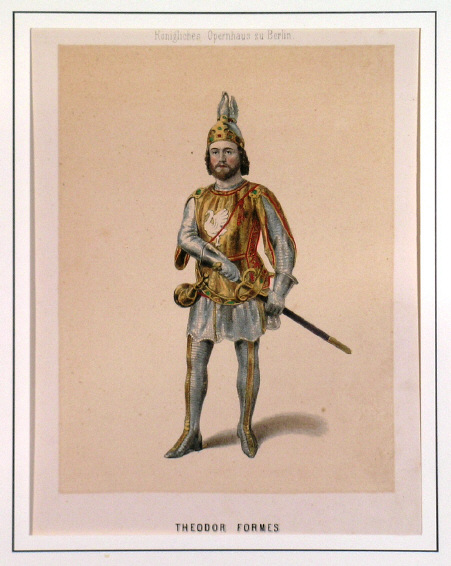 The german opera-singer Theodor Formes (1826-1874)